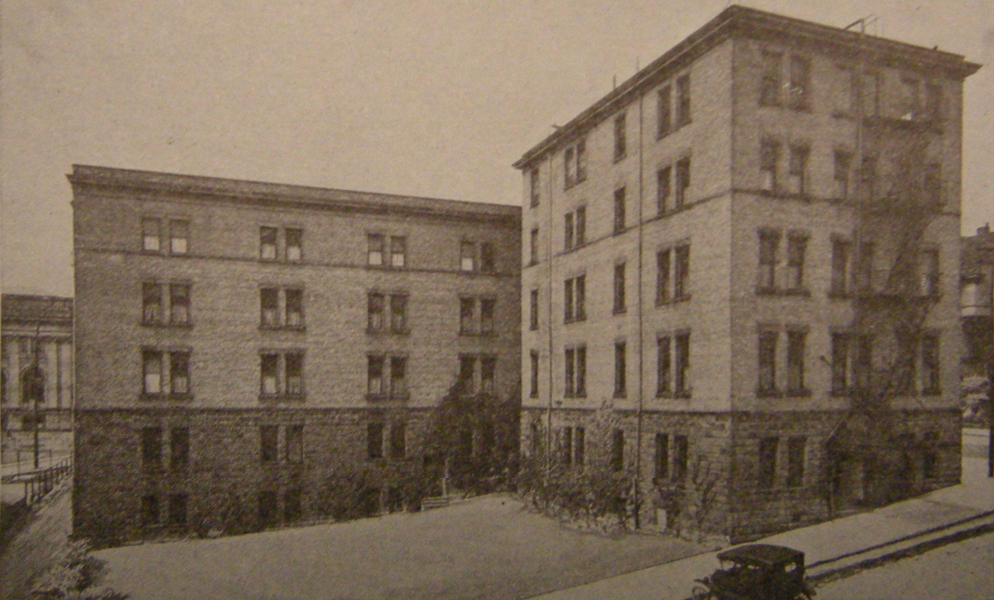 Seattle General Hospital and School for Nurses, corner of 5th and Madison in Seattle, Washington, 1917.